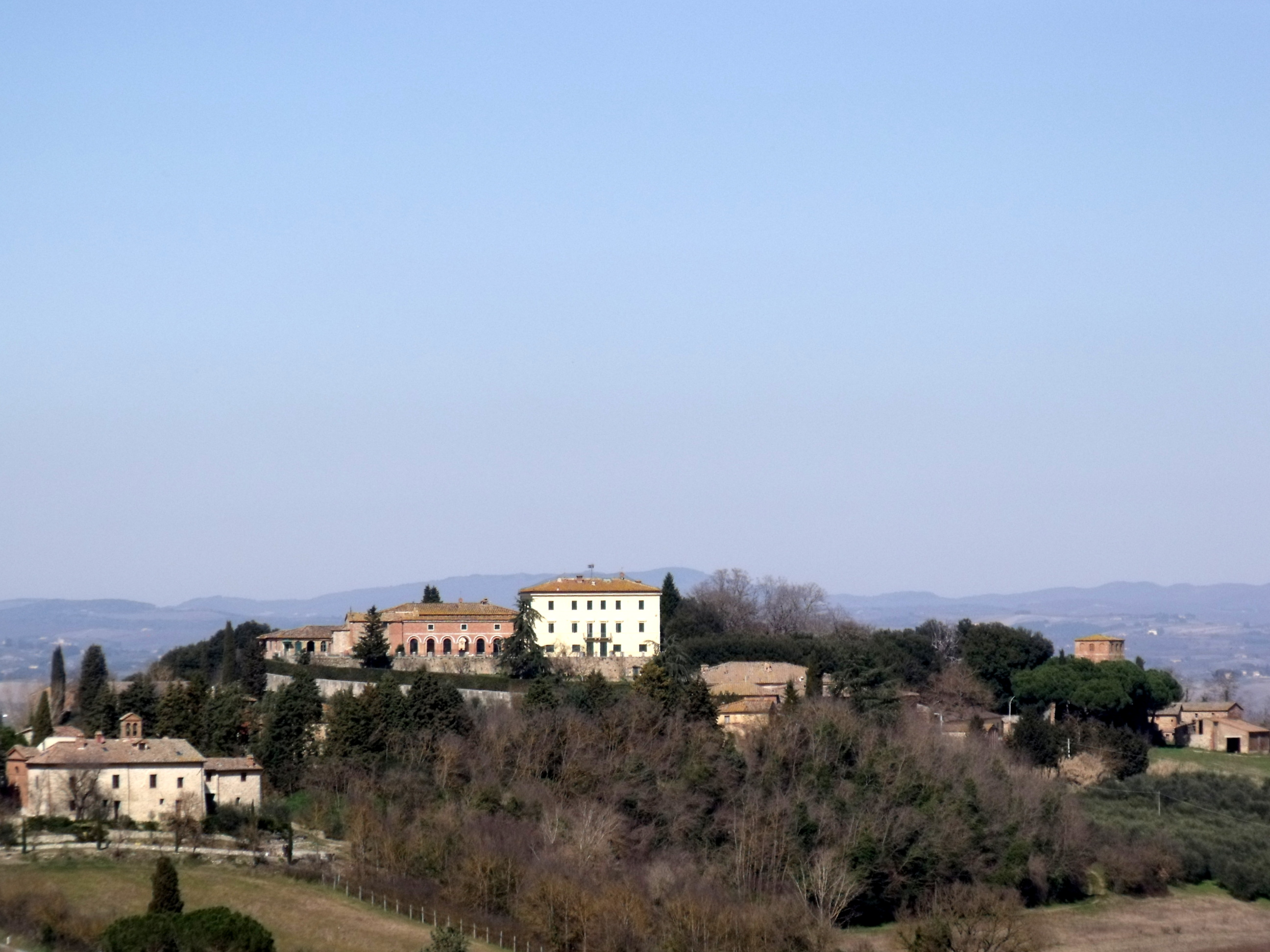 Radi (Radi in Creta), hamlet of Monteroni d’Arbia, Val d’Arbia/Creti Senese, Province of Siena, Tuscany, Italy